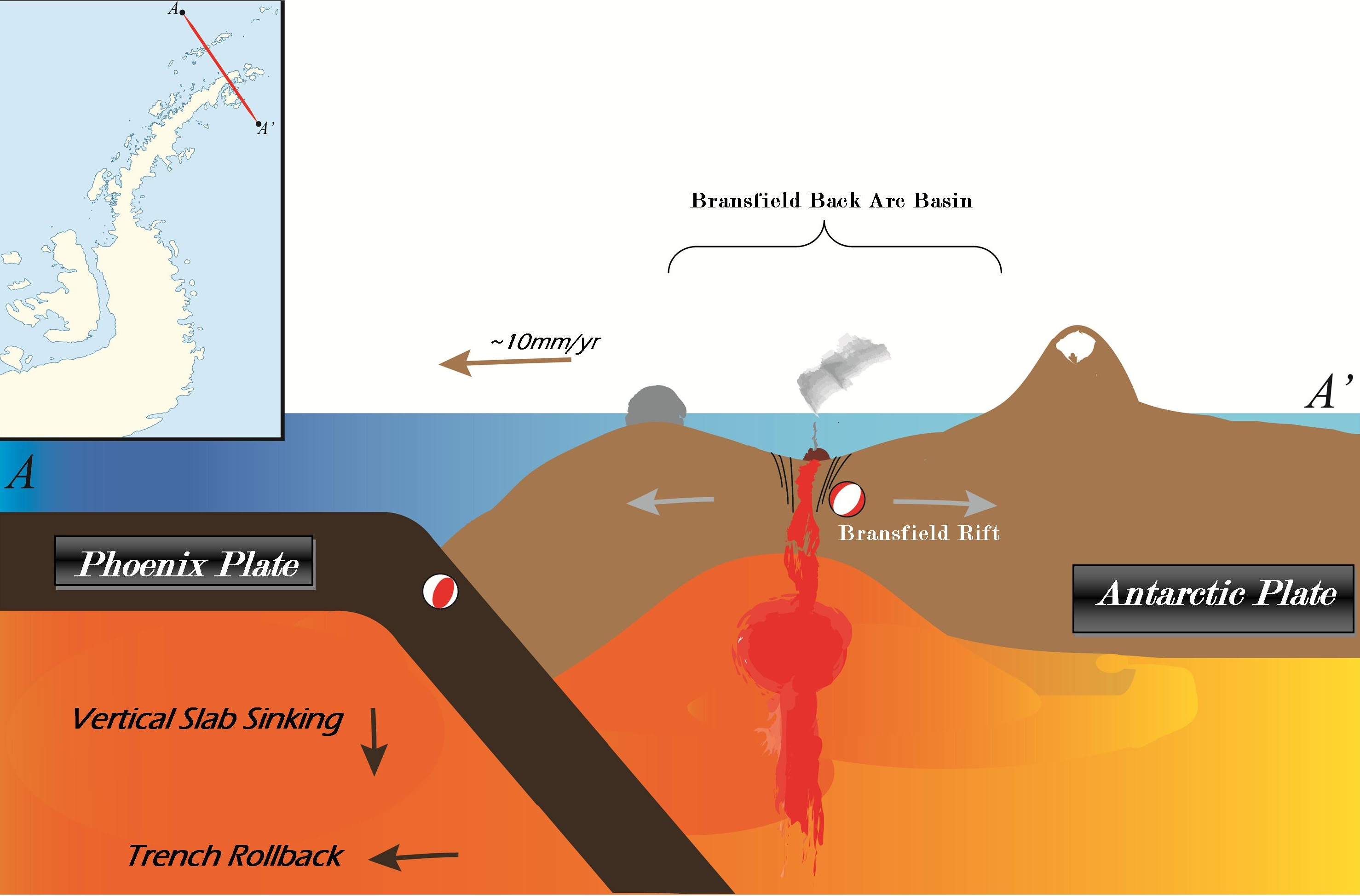 Cross Section of the Antarctic Peninsula's Subduction Zone.